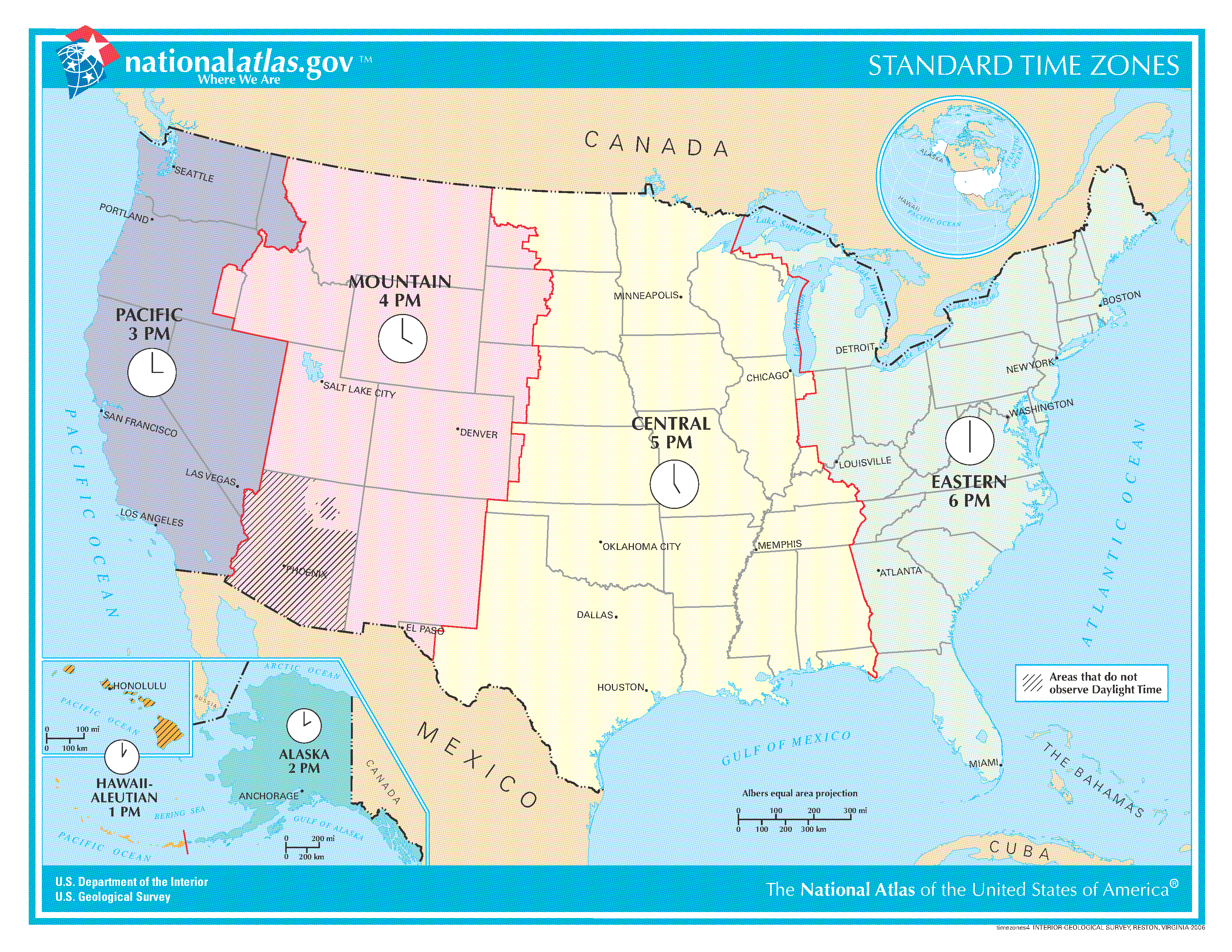 A map of the time zones in the United States of America with their boundaries in the 2000s.